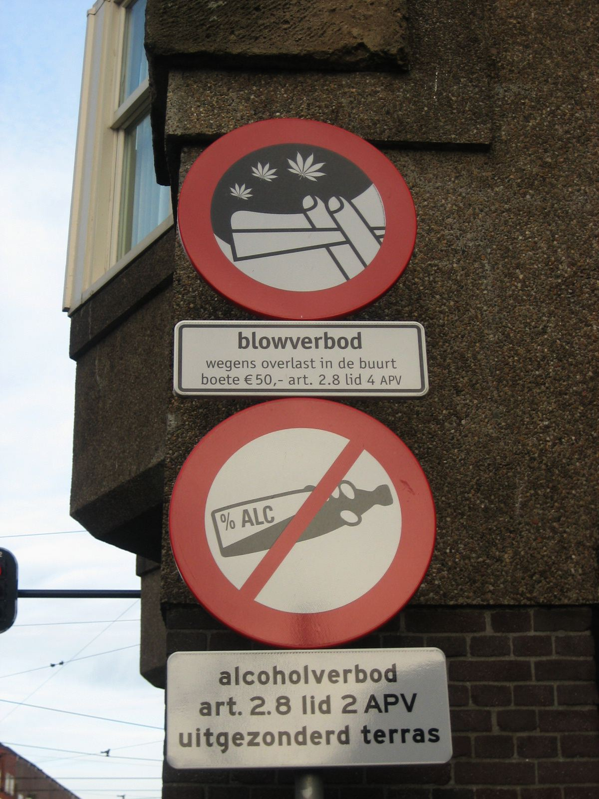 Two prohibition signs in Amsterdam (The Netherlands): smoking marijuana and drinking alcoholic beverages not allowed!